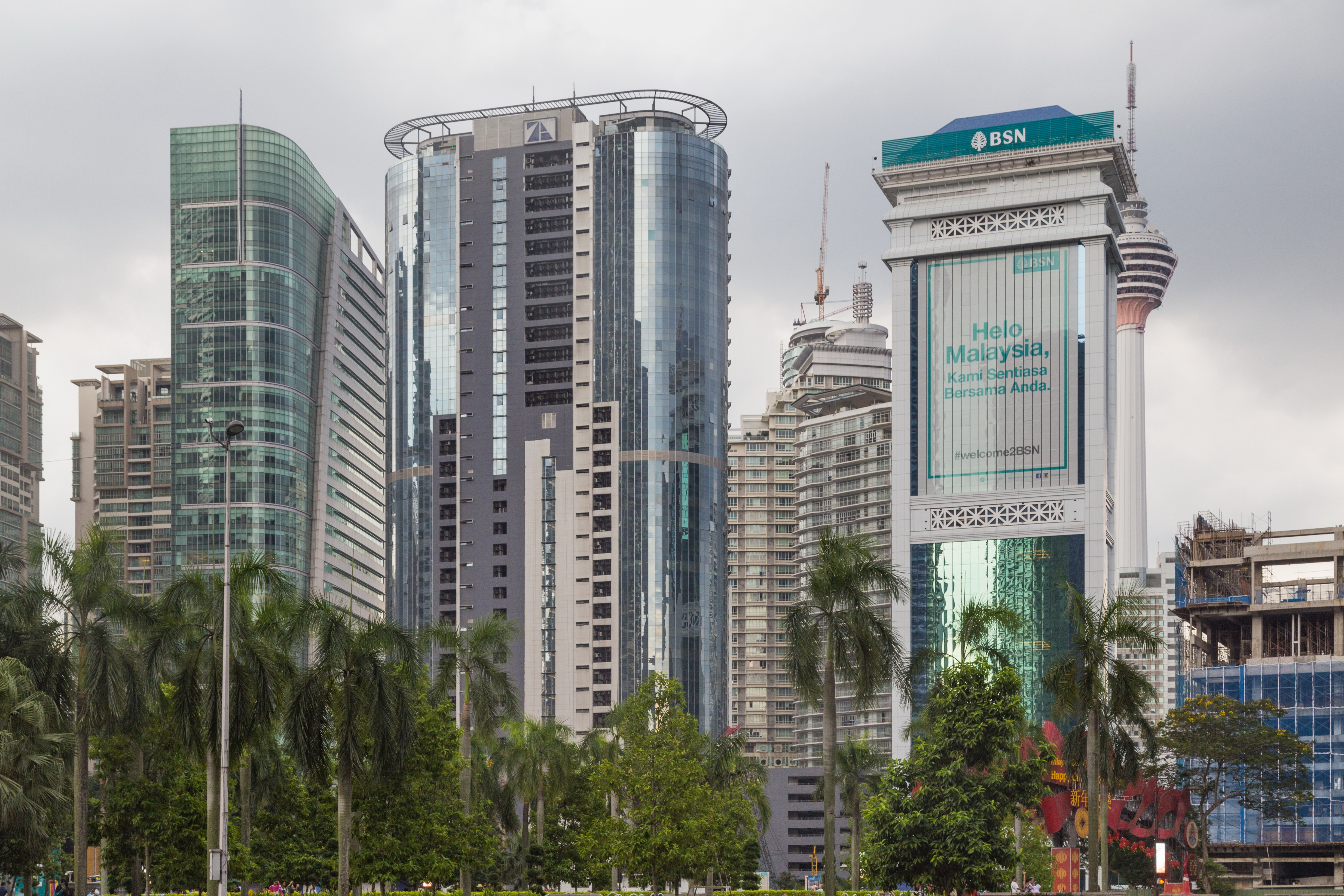 Kuala Lumpur City Centre. Kuala Lumpur, Malaysia.